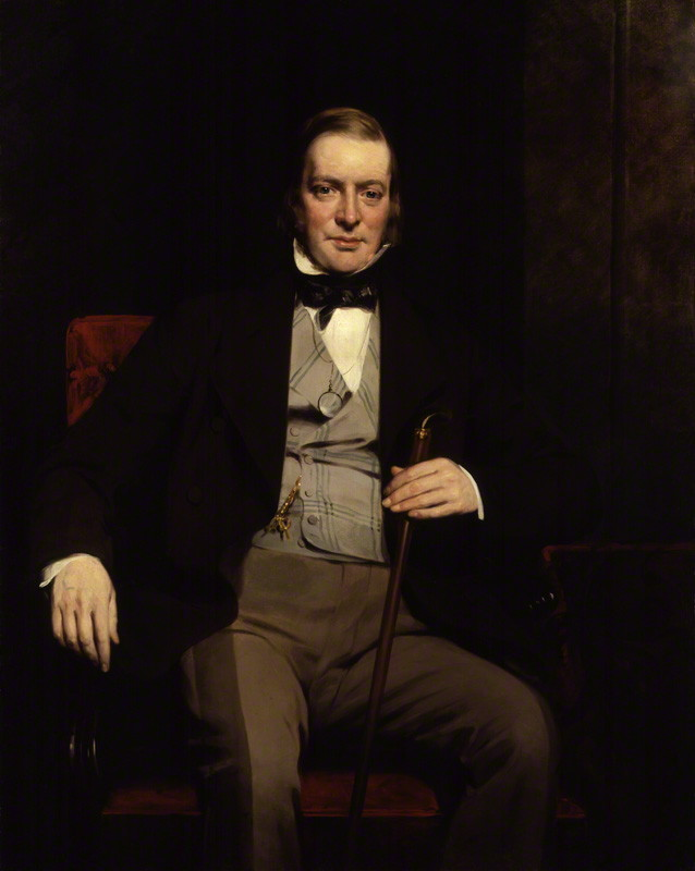 Sir William Molesworth, 8th Baronet (1810-1855) oil on canvas, 1854 50 in. x 40 in. (1270 mm x 1016 mm) Bequeathed by the sitter's widow, Andalusia Grant, Lady Molesworth, 1888 NPG 810